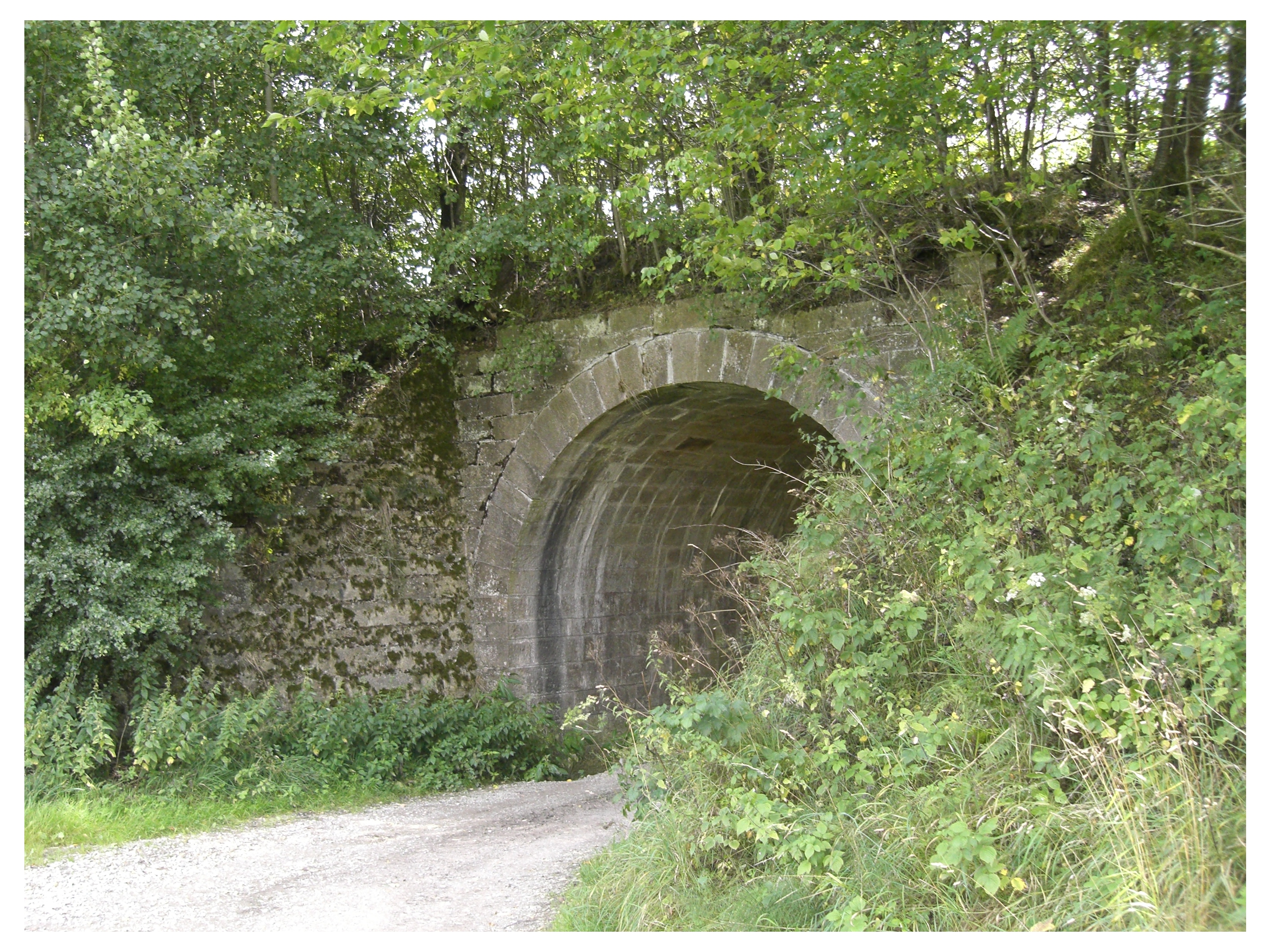 tunnel under the no longer used Cannons Railway Leinefelde-Treysa near Spangenberg-Pfieffe, Hesse, Germany